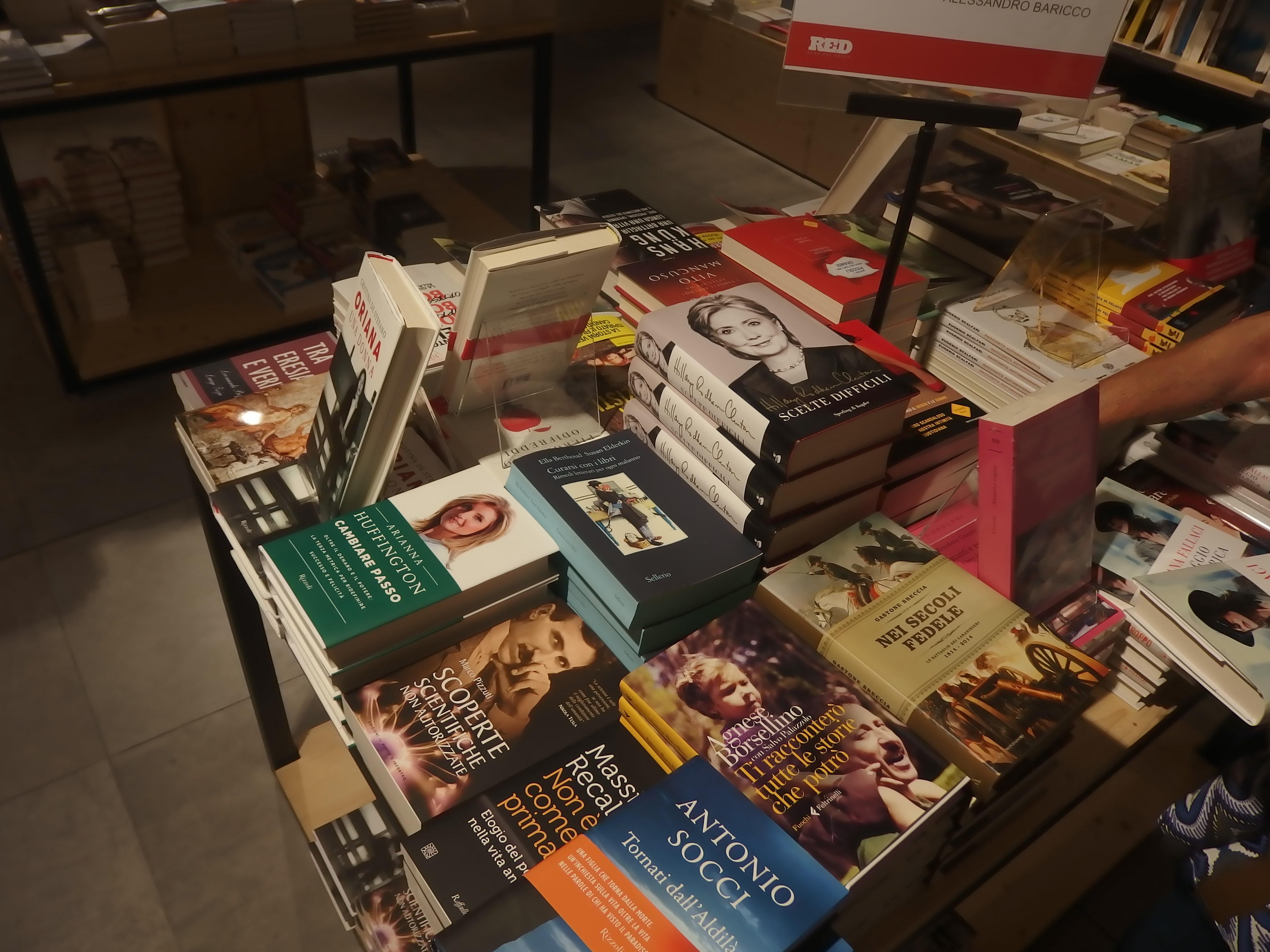 Italian language books on display at Feltrinelli's recently opened RED Store in Florence, Italy. These include Scelte difficili, the Italian language translation of Hillary Rodham Clinton's 2014 memoir Hard Choices.